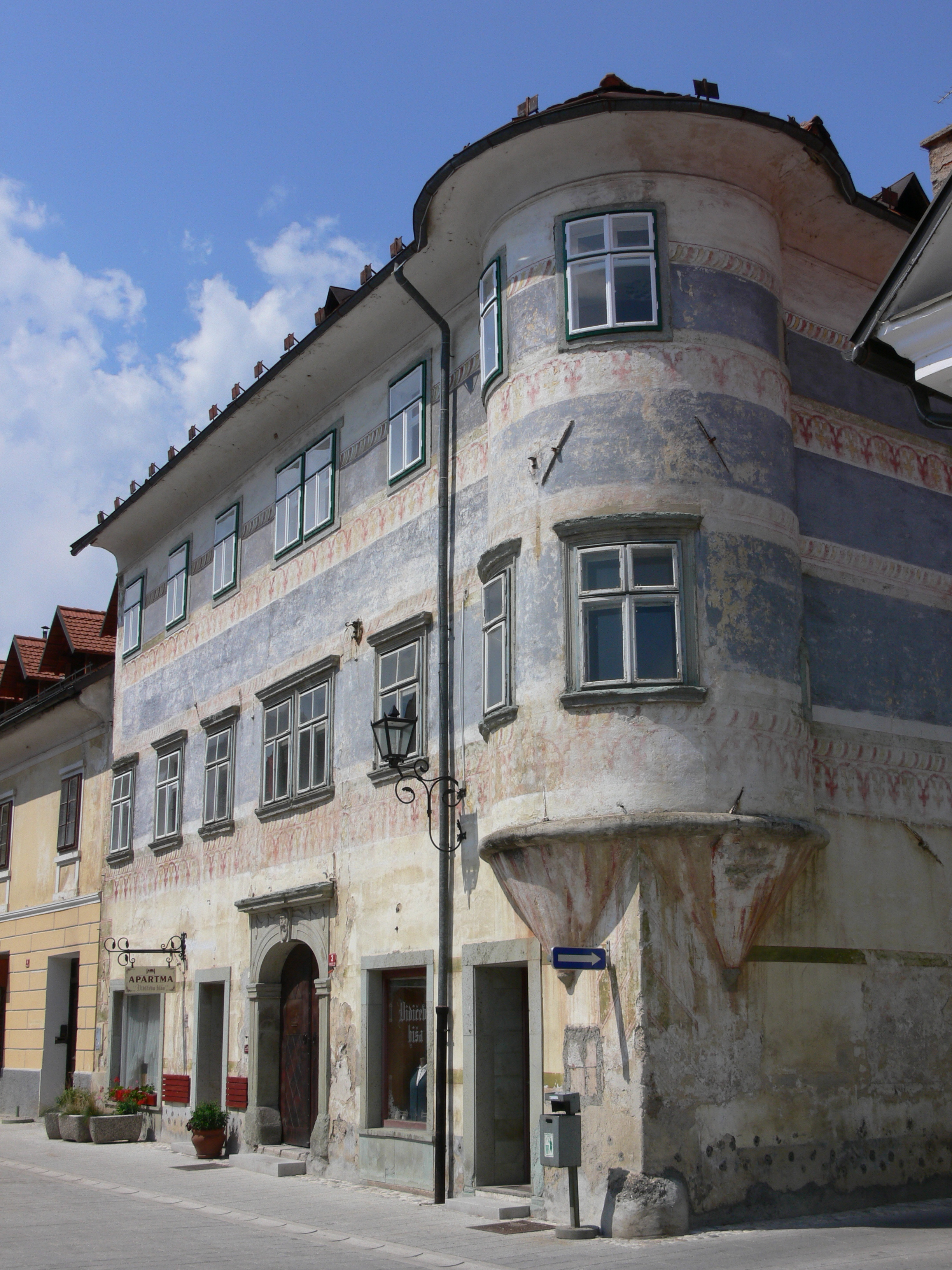 Vidic house, dating from 1634, an example of a bourgeois manor-house with portal from 1833.